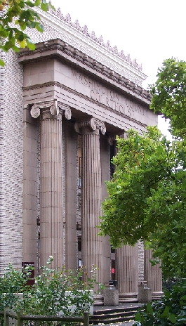 Washington County Courthouse in Hillsboro